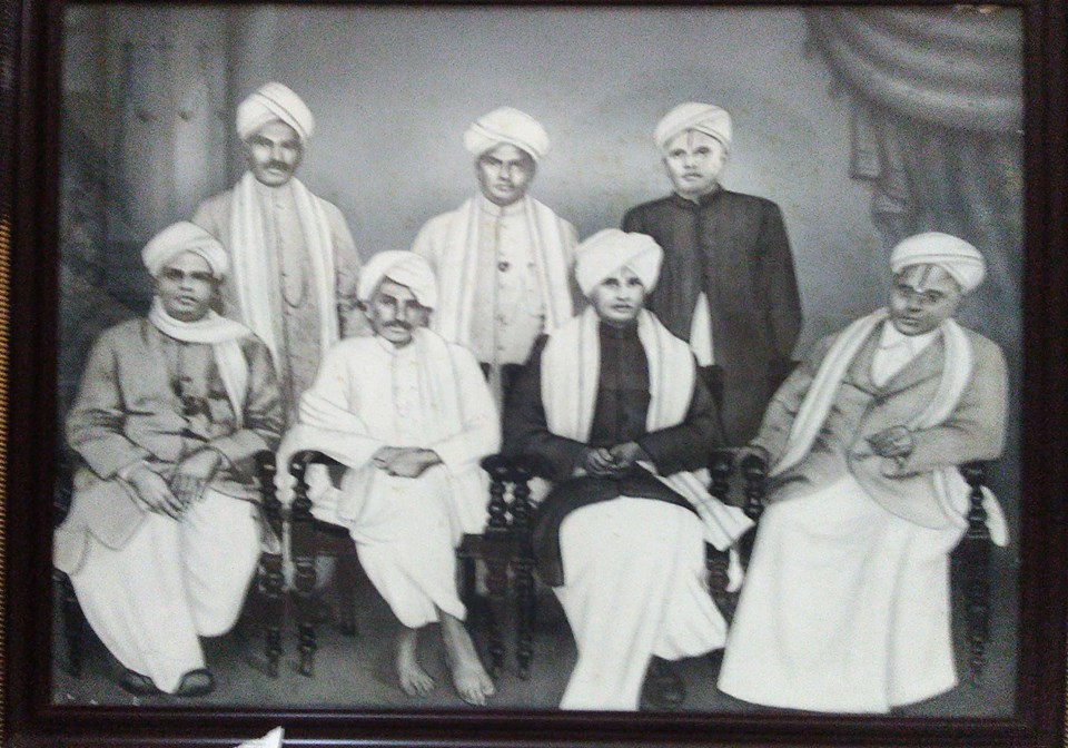 1915 Madras Presidency Conference held on May 4 and 5 th. Rebala Lakshmi Narsa Reddy who constructed the Nellore Town hall with Gandhi ji. 1.row BNSarma(?), 4. K.V.Veeraraghavachari(HM, V.R.Hischool) standing1. Bejavada Pattabhi Ramareddy(?), middle G.A .Natesan(Editor, Indian Review).